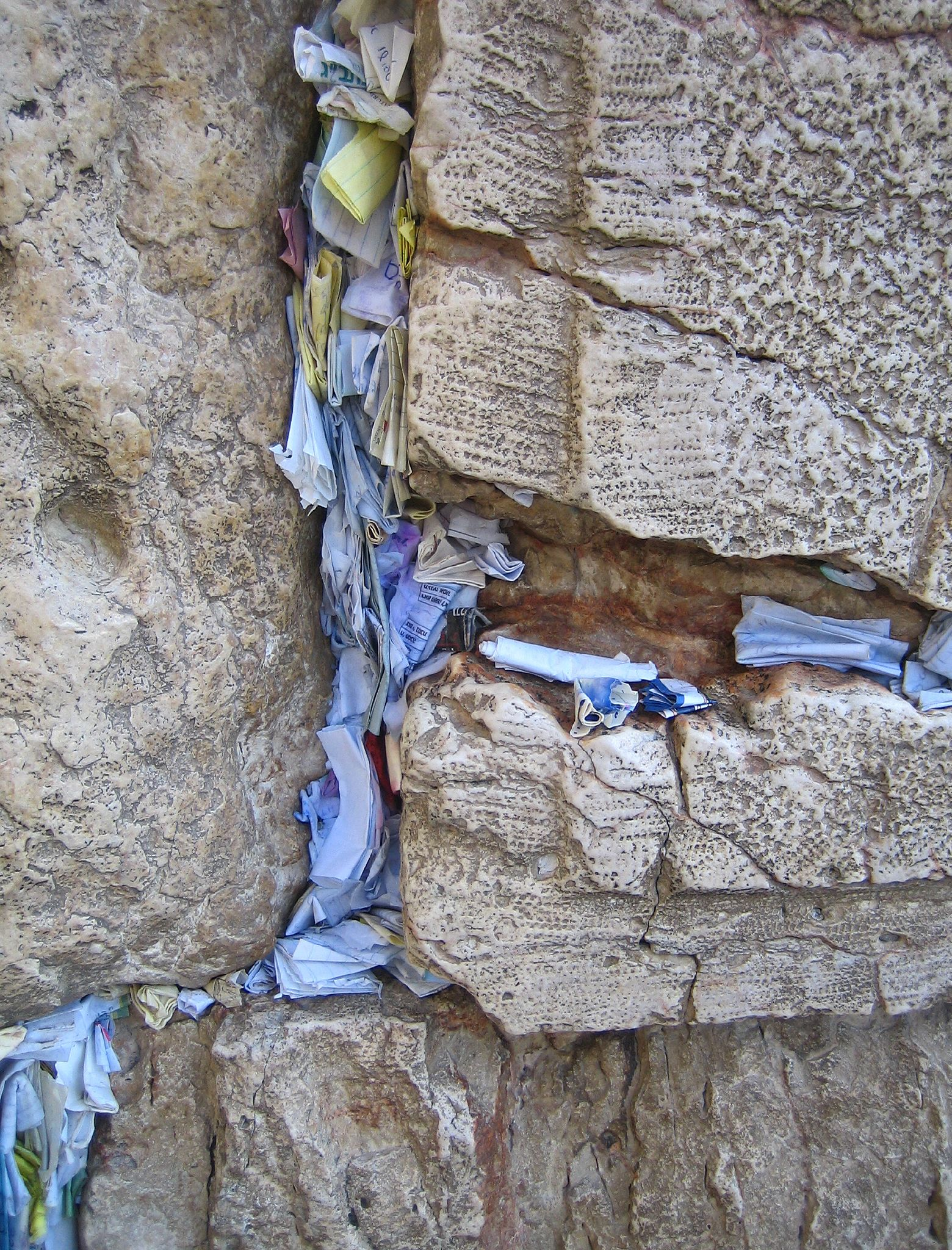 Papers with prayers and wishes that have been inserted into the cracks between the stones of the Western Wall (or Kotel) in Jerusalem